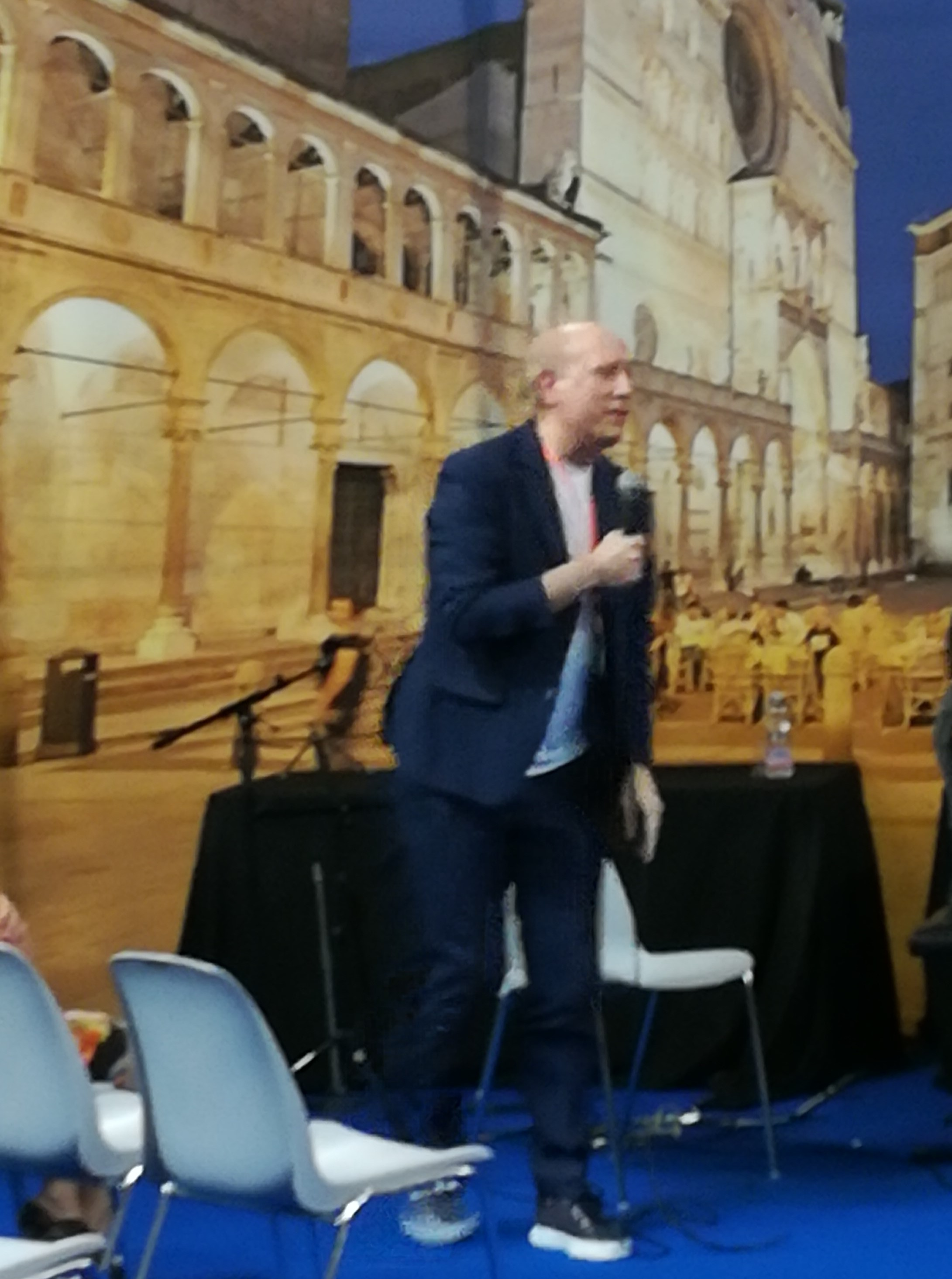 Giovanni Bellucci in Cremona, september 2018